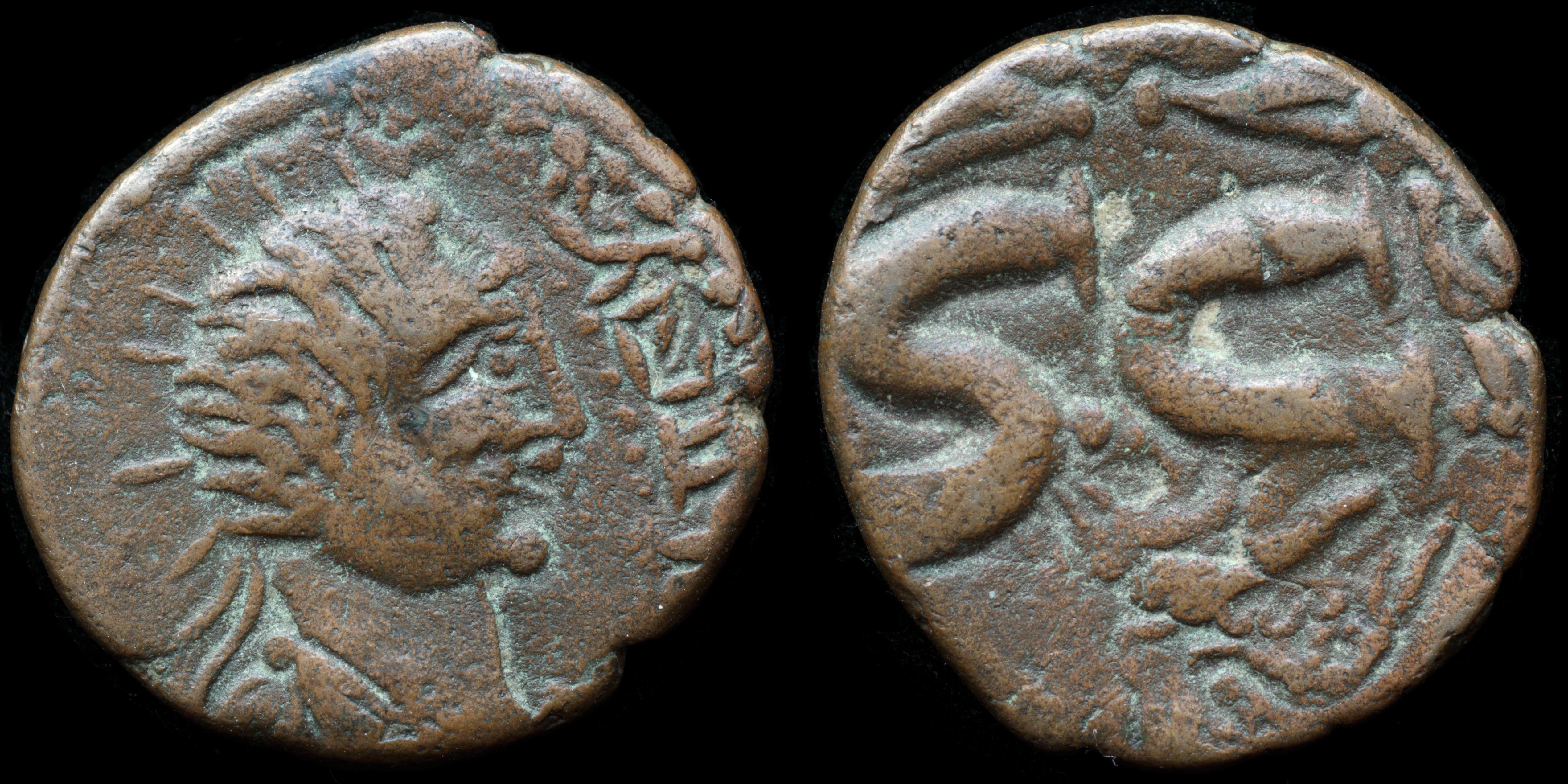 bronze coin struck in Hatra, Mesopotamia 117-138 AD obverse: radiete, draped bust of Shamash right HTR DSMS (in Hatran alphabet = Hatra of Shamash) reverse: eagle half right, above S.C upside down ref.: SNGCop 232